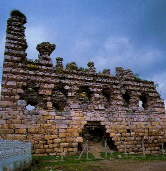 Nymphaeum Palace